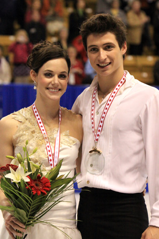 2009 Skate Canada International - Tessa Virtue and Scott Moir